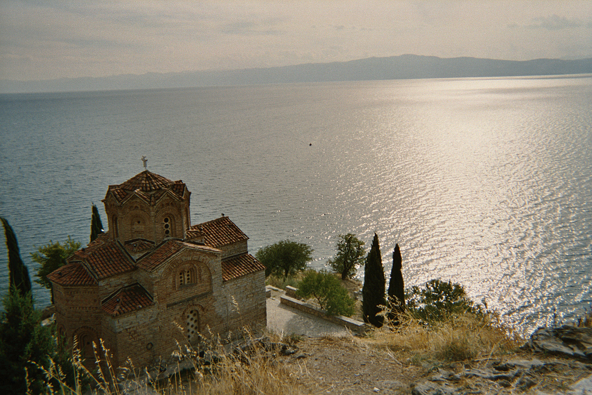 The Church of St. John at Kaneo in Ohrid.